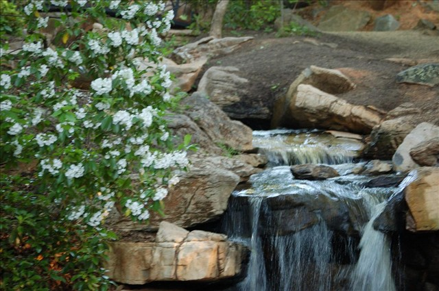 Photo showing the Dr. Joe Christian Serenity Falls located at The Bog Garden in Greensboro, NC, USA.